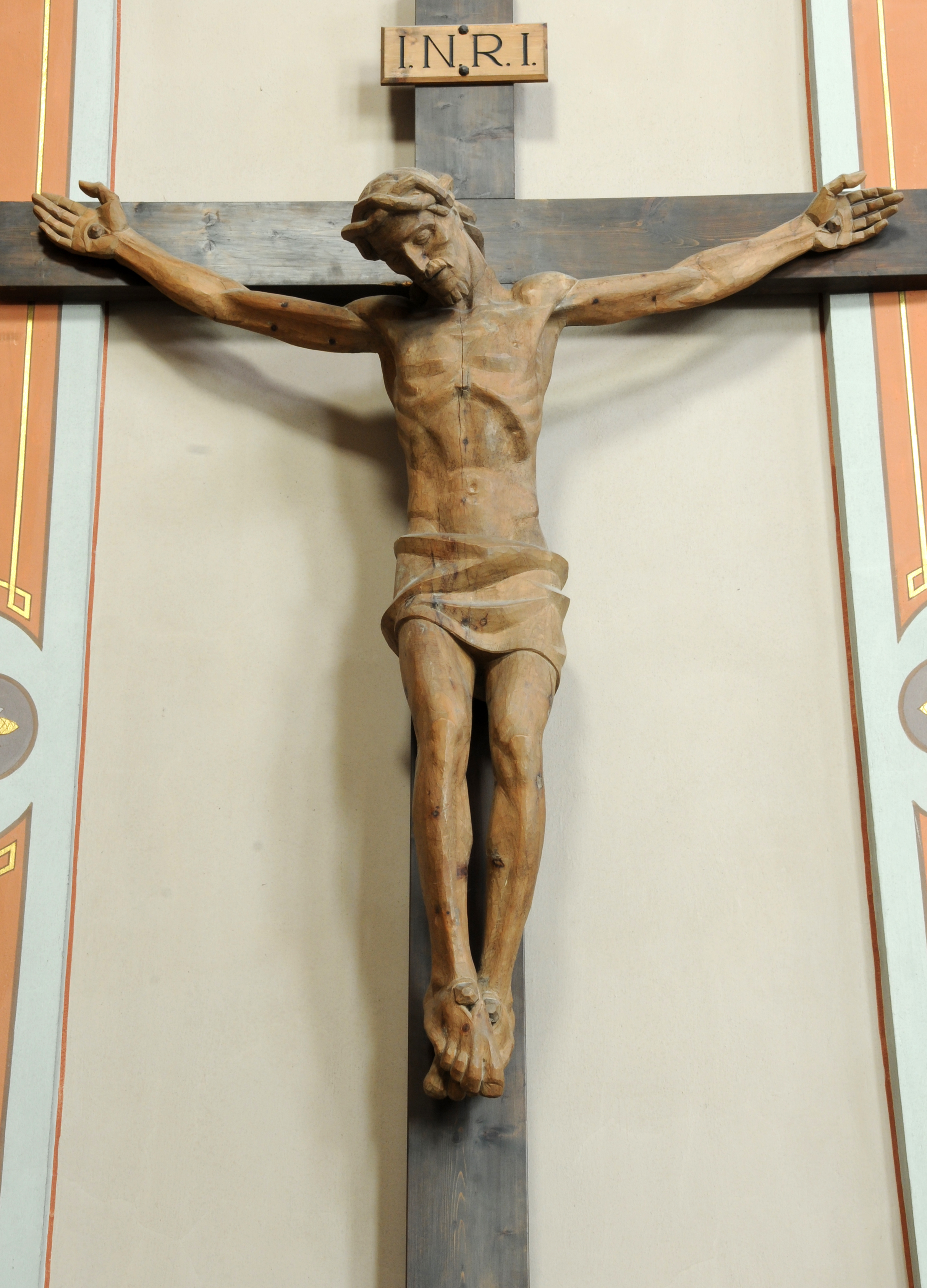 Crucifix by Vinzenz Peristi, sculptor in Val Gardena around 1935.